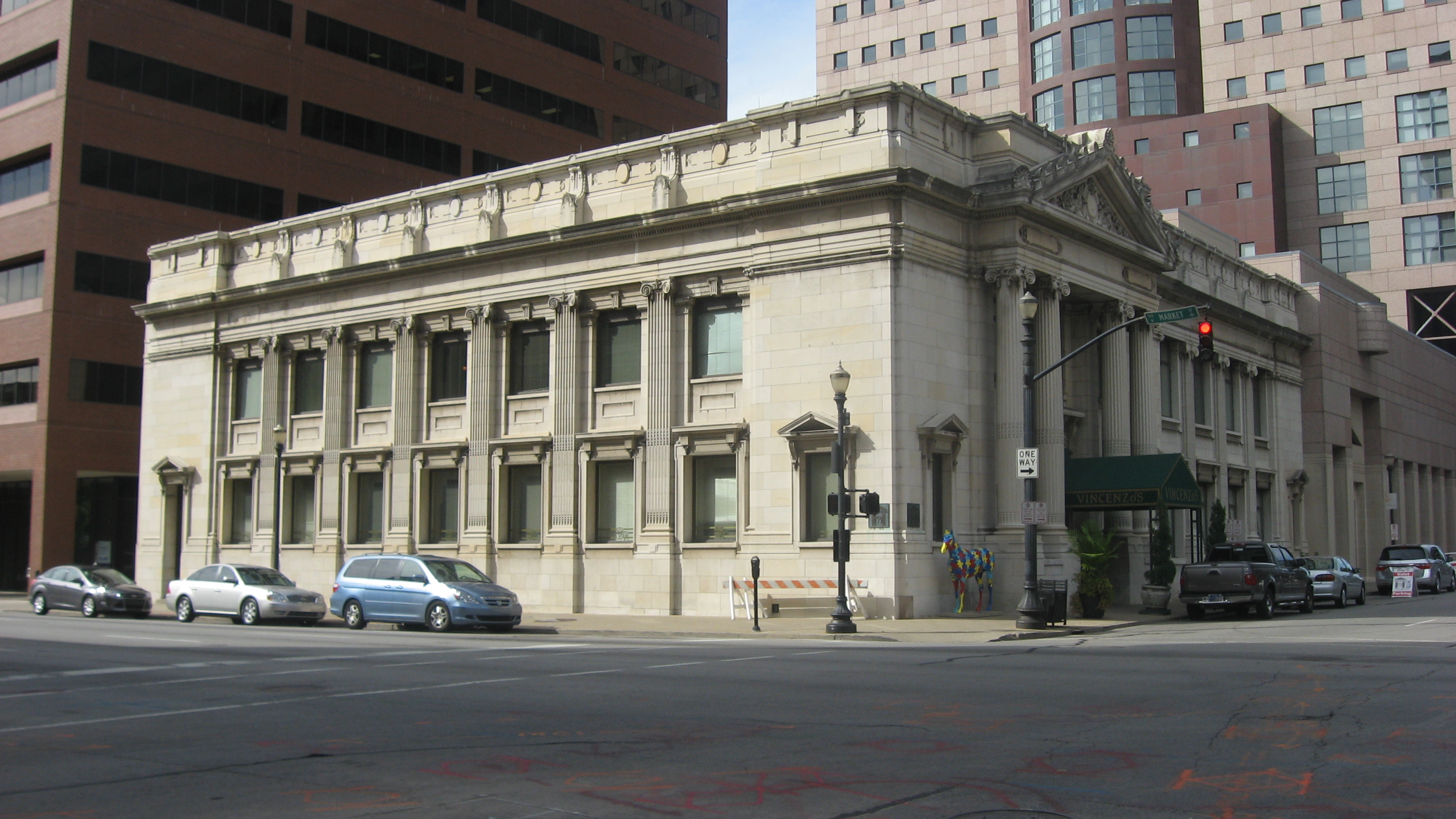 Southern side and front of the German Bank Building, located at 150 S. Fifth Street at the Market Street (U.S. Route 31W) intersection in Louisville, Kentucky, United States. Built in 1914, it is listed on the National Register of Historic Places.